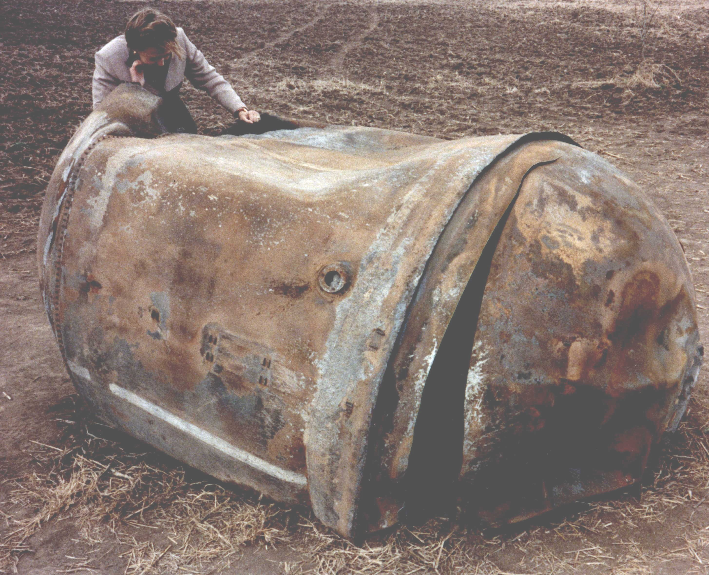 Space Debris — This is the main propellant tank of the second stage of a Delta 2 launch vehicle which landed near Georgetown, TX, on 22 January 1997. This approximately 250 kg tank is primarily a stainless steel structure and survived reentry relatively intact.